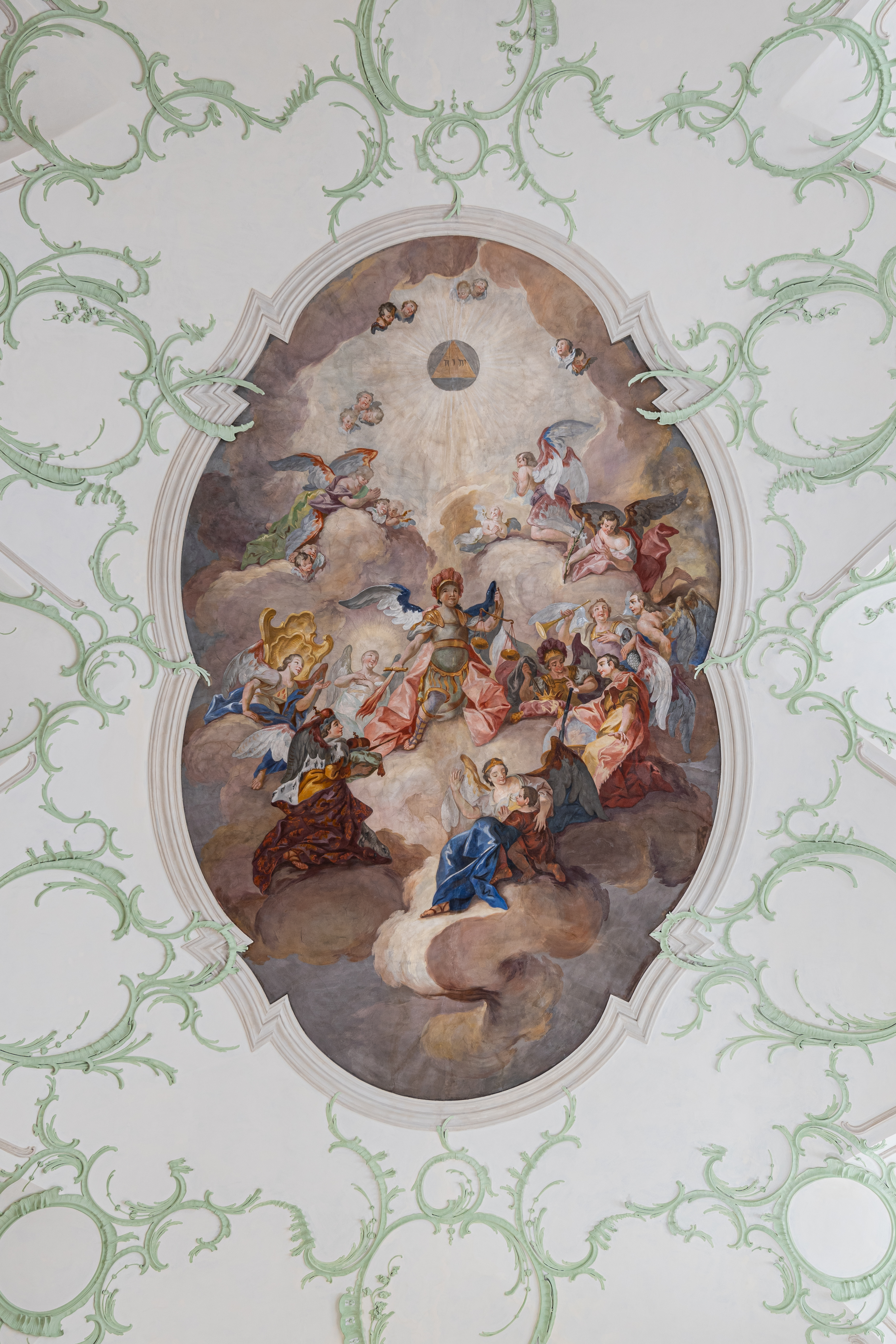 This fresco in the ceiling of Michaels church in Salzburg shows the adoration of god by the archangel Michael. It was painted by court painter Franz Nikolaus Streicher 1770. The rococo stuccos were made by Benedikt Zopf.